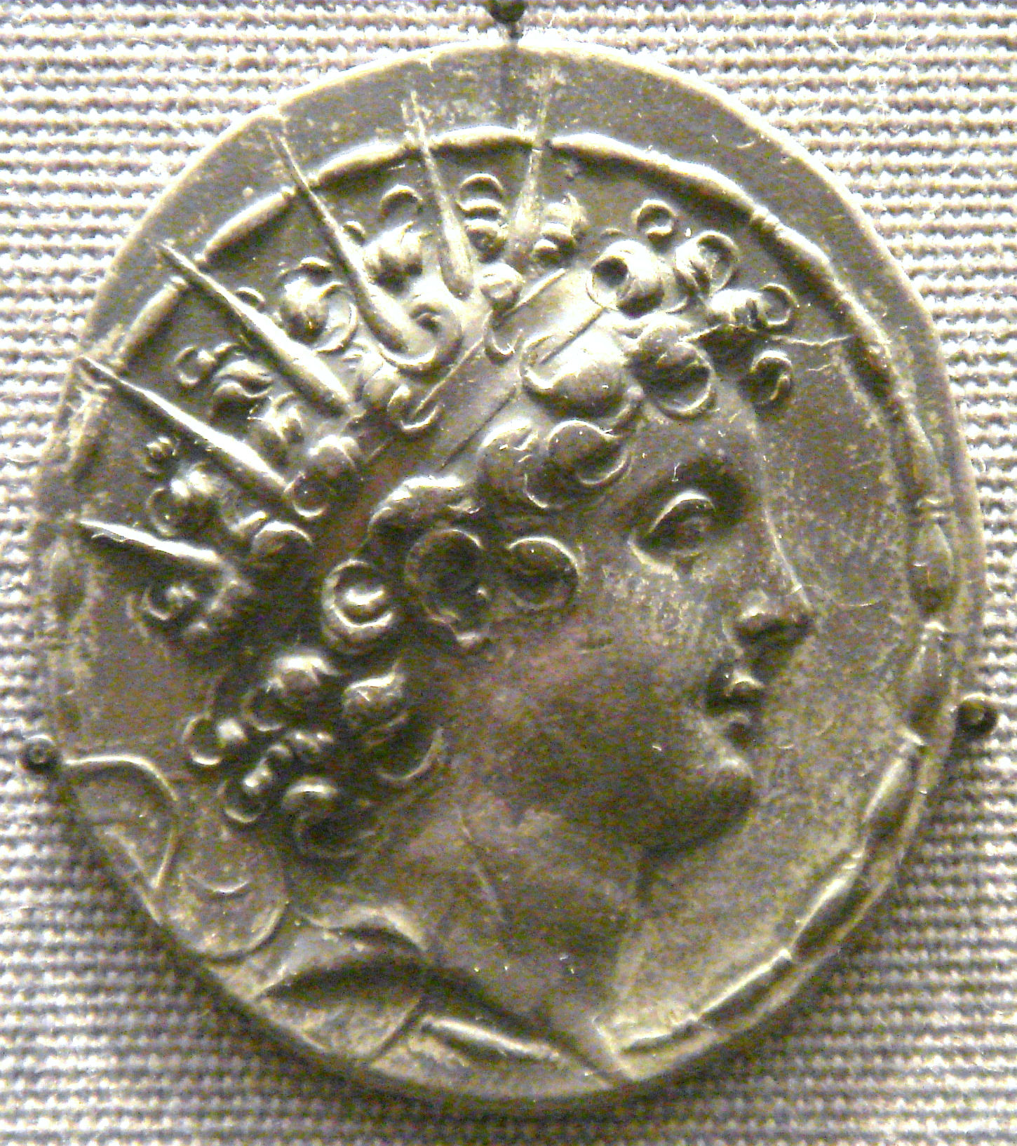 Antiochos_VI